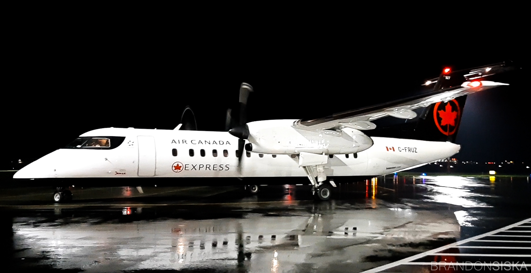 Air Canada Express Dash 8-300 New Livery